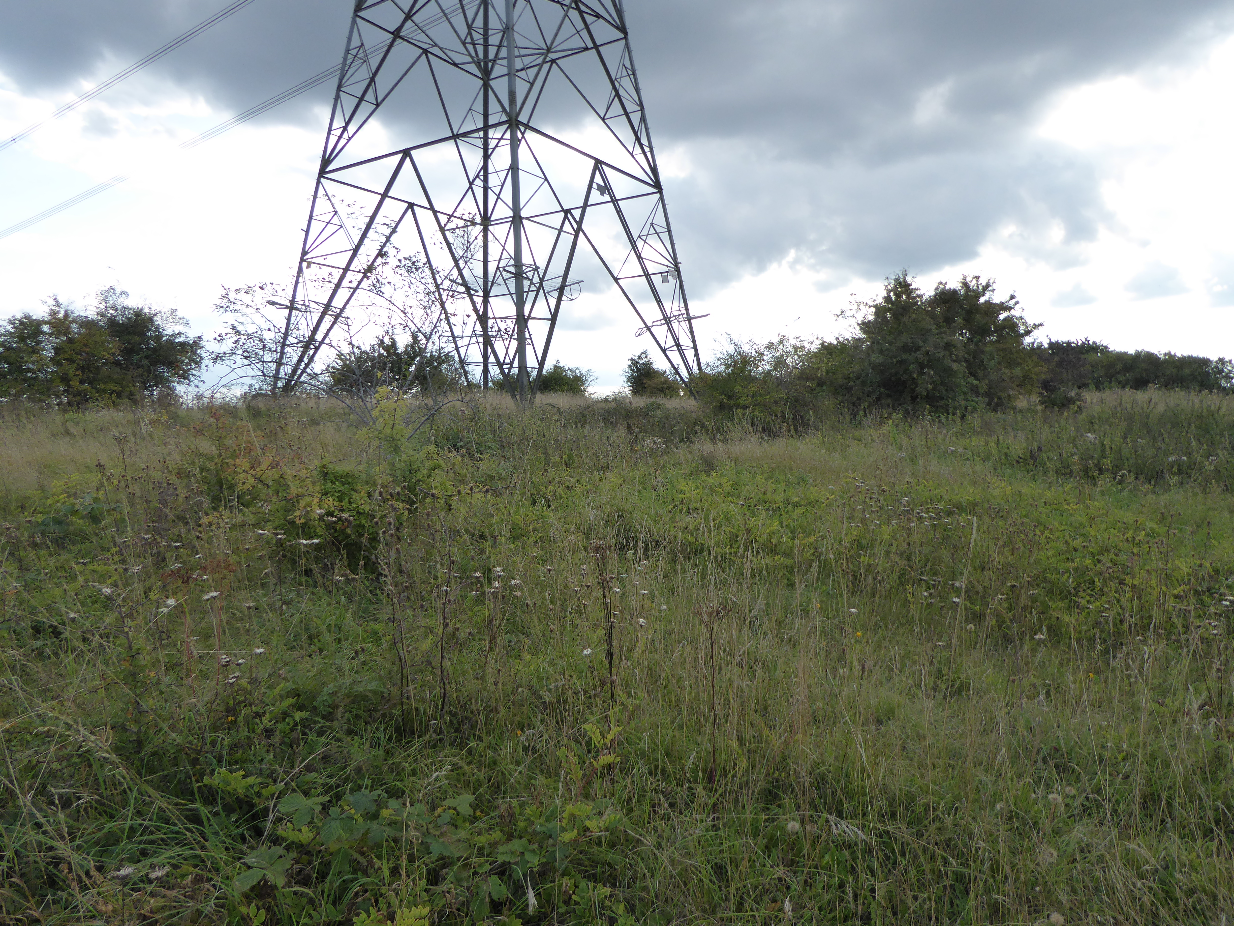 Ryhall Pasture and Little Warren Verges is a biological Site of Special Scientific Interest partly in Rutland and partly in Lincolnshire. it is north of the village of Ryhall.